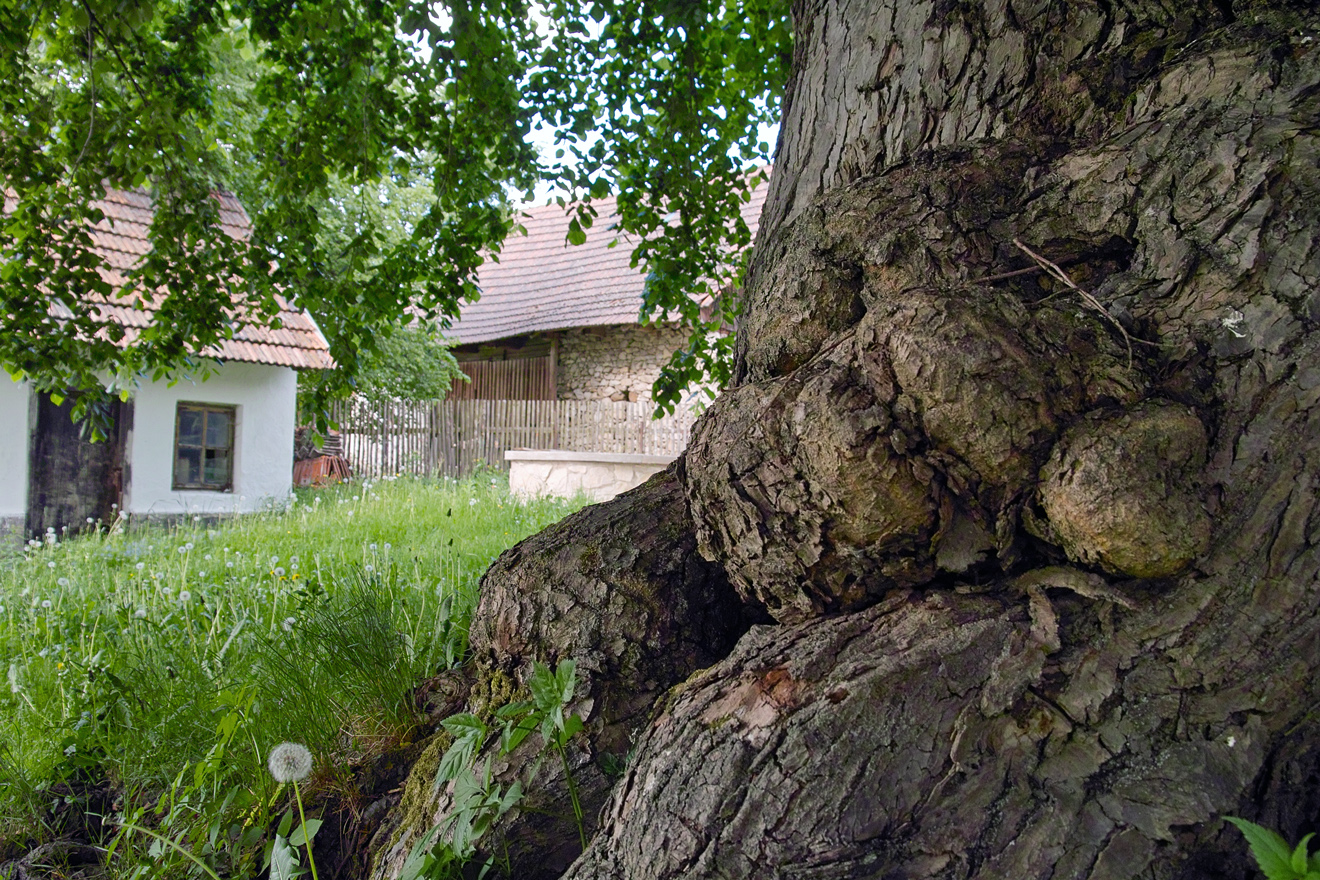 Holub's lime tree, famous tree in Vlasenice near Tabor, Czech Republic